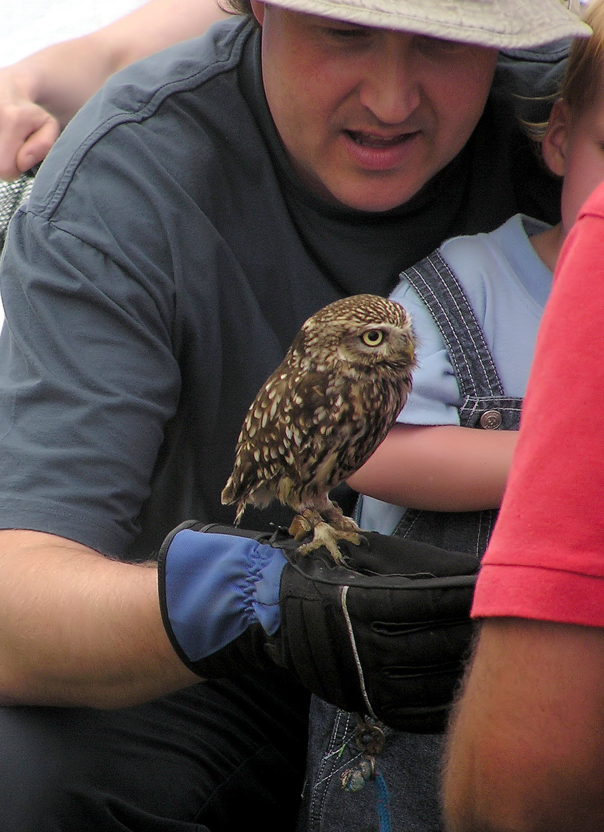 Little Owl Athene noctua at Avon Valley Country Park, Bristol, England.